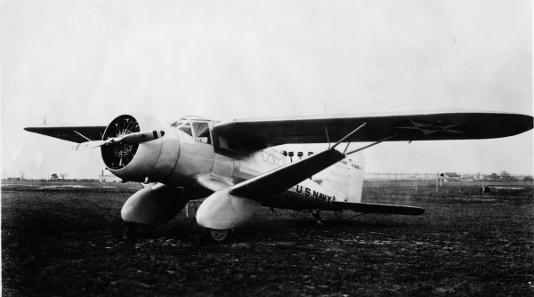 PictionID:40958157 - Catalog:Array - Title:Array - Filename:16_000383 Bellanca XSE-1 9186 USN.tif - Ray Wagner was Archivist at the San Diego Air and Space Museum for several years and is an author of several books on aviation --- ---Please Tag these images so that the information can be permanently stored with the digital file.---Repository: San Diego Air and Space Museum